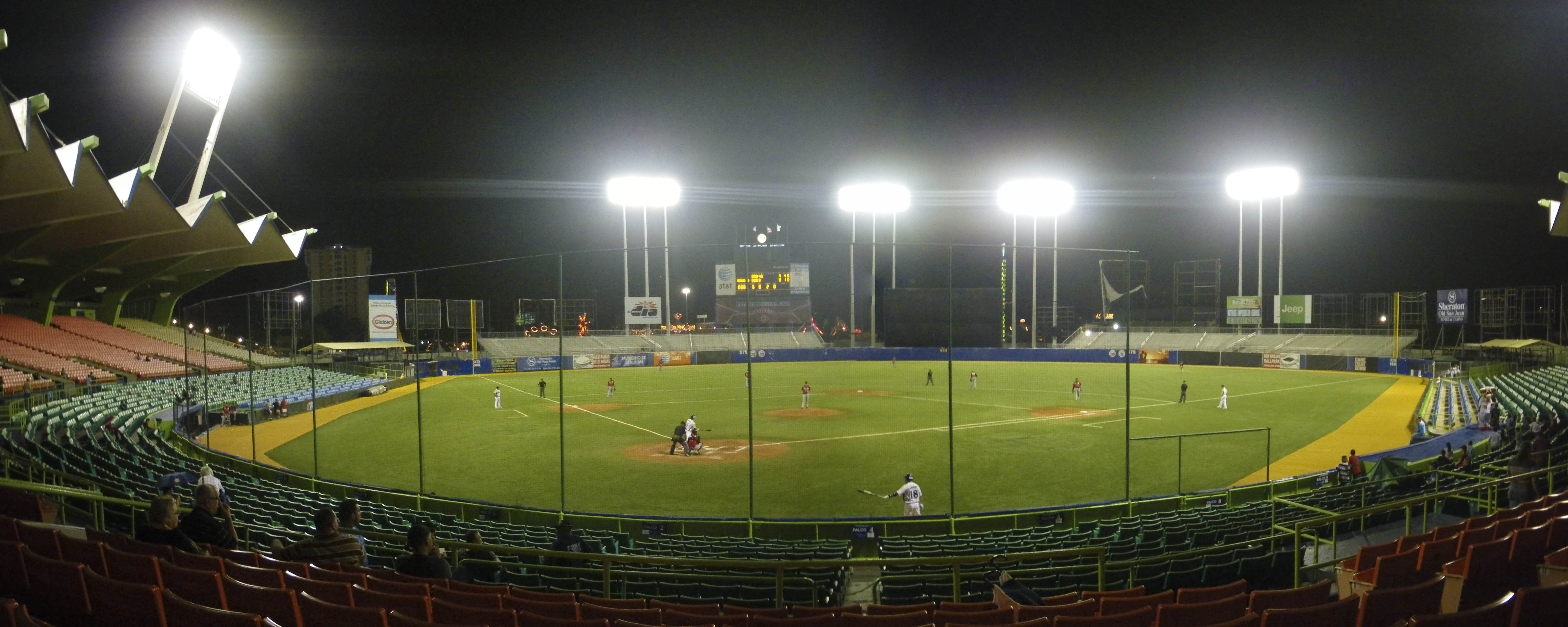 Hiram Bithorn Stadium in Santurce, San Juan, Puerto Rico. Baseball match between Senadores de San Juan v. Leones de Ponce